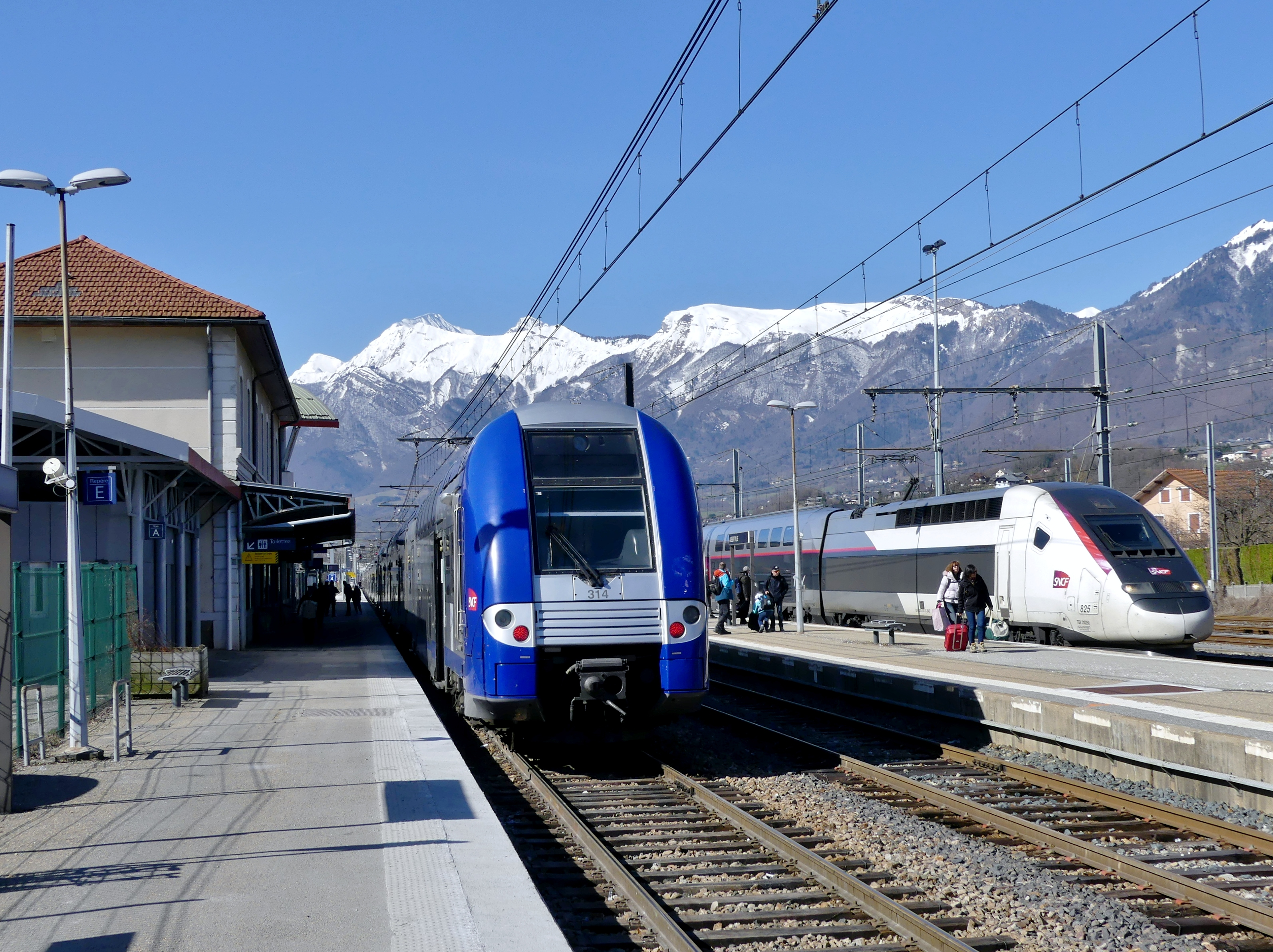 Sight of French regional train n°883205 from Lyon to Bourg-Saint-Maurice and TGV n°6420 from Bourg-Saint-Maurice to Paris, at Albertville station (Savoie), at the end of winter.